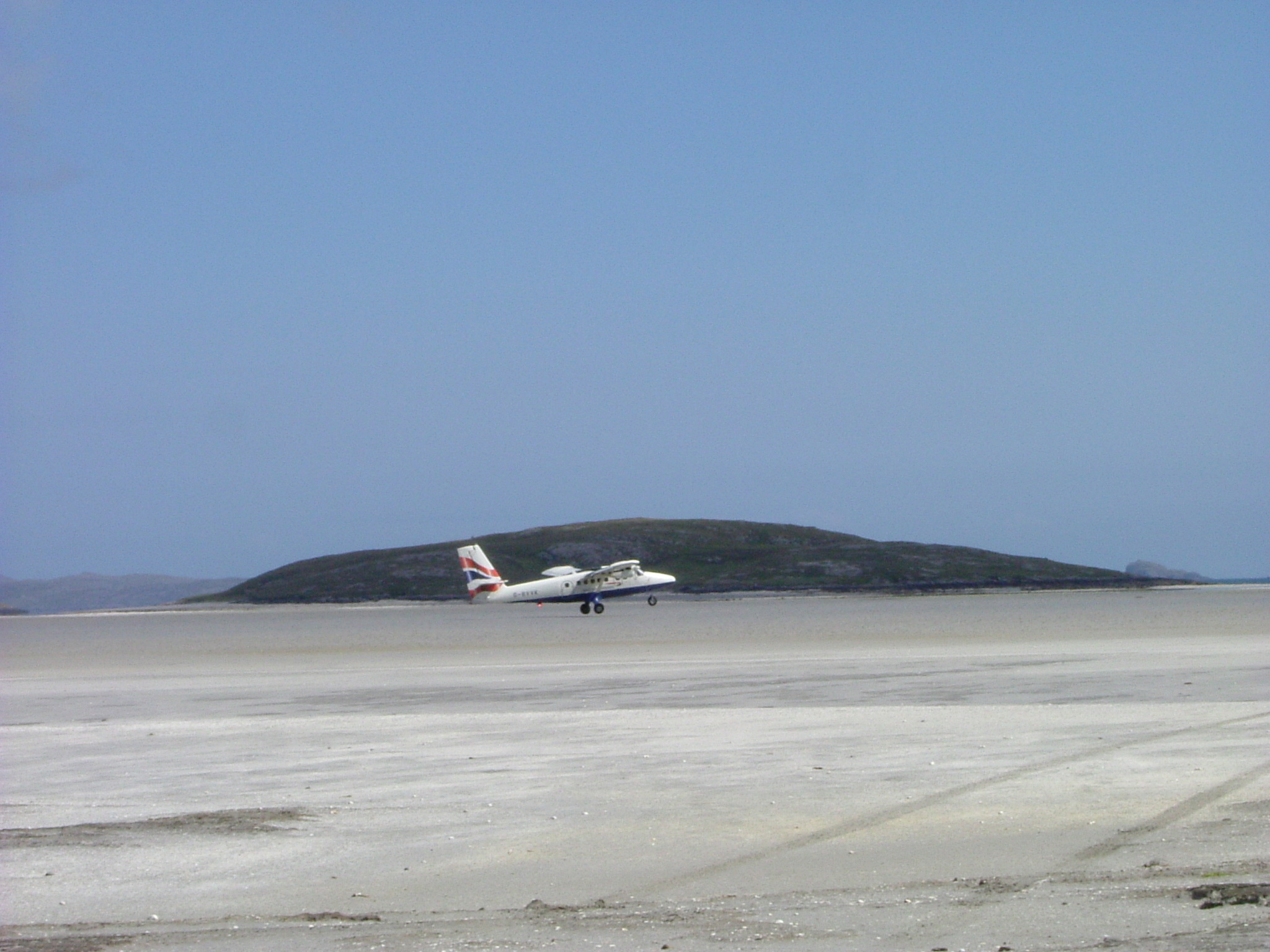 dH Twin Otter Touches down at Barra Airport in the Outer Hebrides, Scotland, UK.